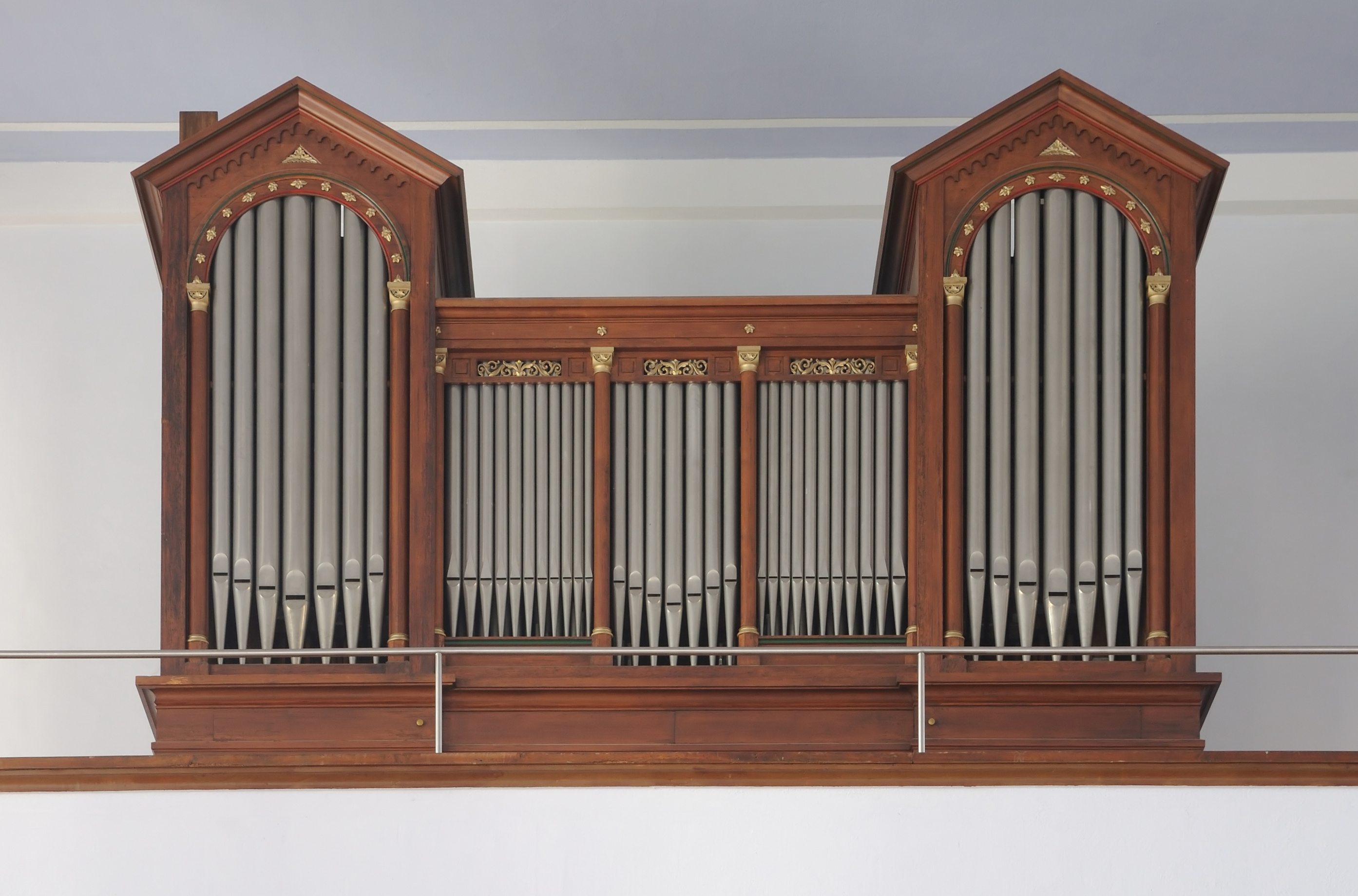 Schwörstadt: Catholic Church